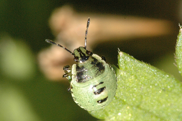 Picture taken in Commanster, Belgian High Ardennes . Species: Palomena prasina nymph